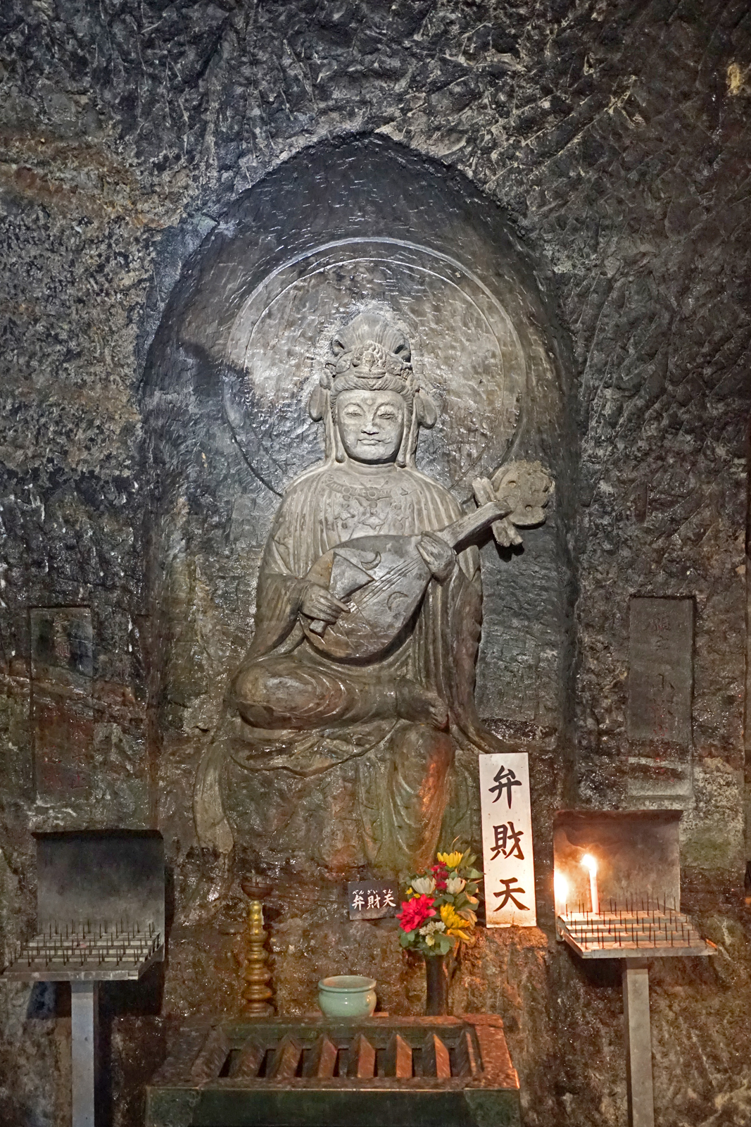 Benzaiten is a Shinto Buddhism goddess derived from the Hindu goddess of knowledge, music and arts named Sarasvati. The earliest mentions of her, as goddess of knowledge, arts, and everything that flows, is found in 1st-millennium literature of Japan. Like Sarasvati, she holds a musical instrument in her hands in Japanese iconography. From the source, Benzaiten, la déesse des arts (temple Hase-dera, Kamakura) Creusée dans le flanc de la colline, au premier niveau du temple Hase-dera, la grotte Benten-kutsu abrite la déesse des arts : Benzaiten (jouant du biwa), équivalent japonais de la déesse hindoue Sarasvati, elle est également issue d'une divinité shinto (kami) : Ugajin. le site officiel u temple Hasedera